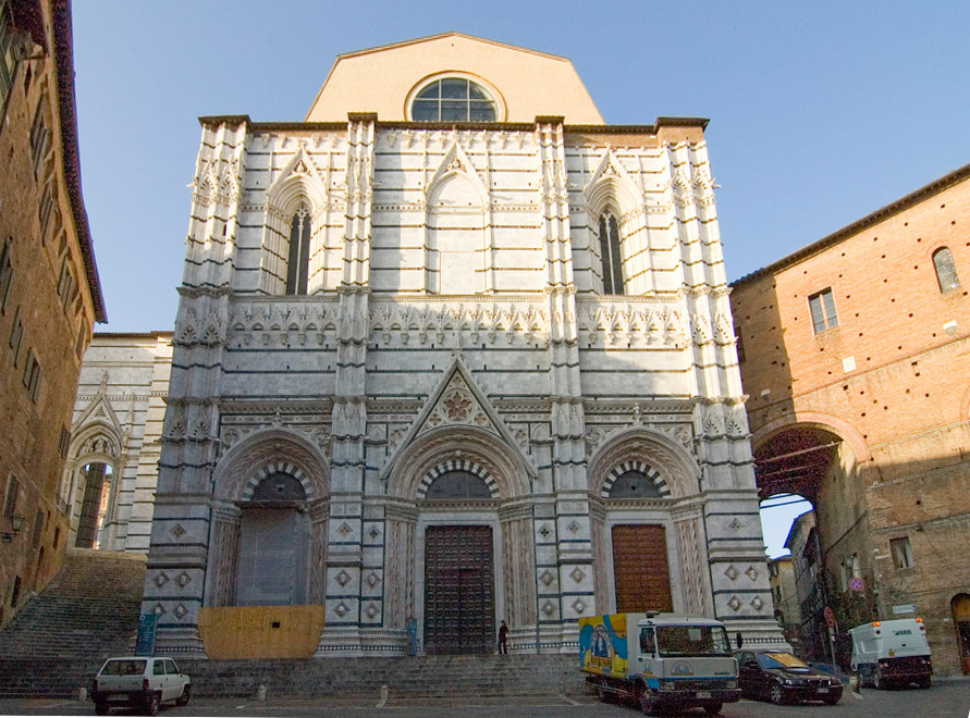 see above